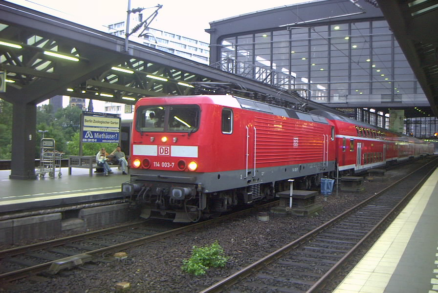 DB 114 003 at Berlin - Zoologischer Garten